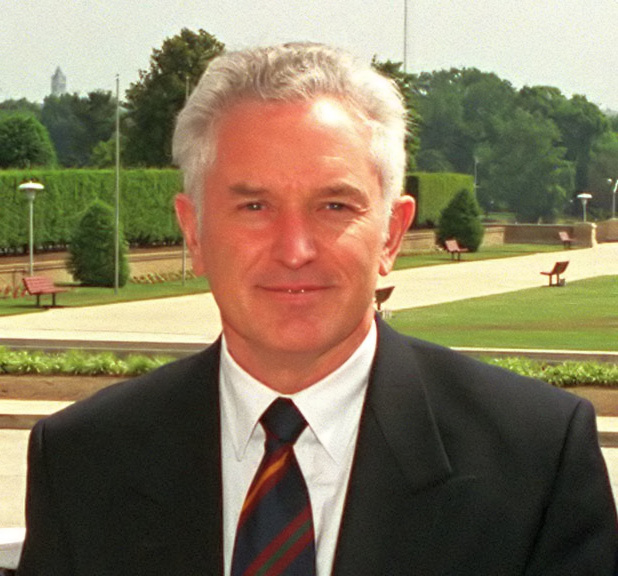 New Zealand Defence Minister Max Bradford, cropped and adjusted from DoD photo 990603-D-2987S-003 by Helene C. Stikkel.